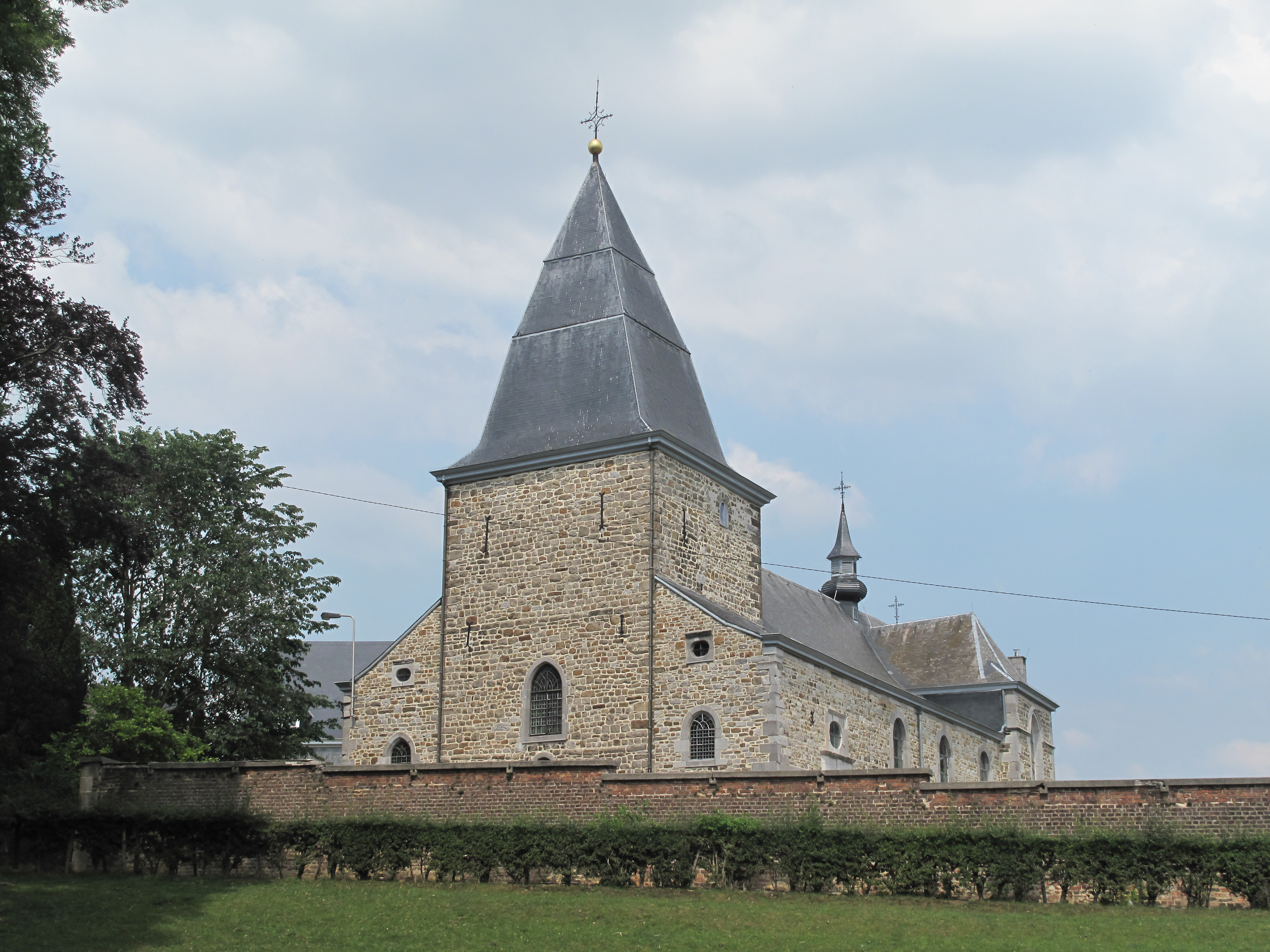 Henri Chapelle, church: église Saint Georges